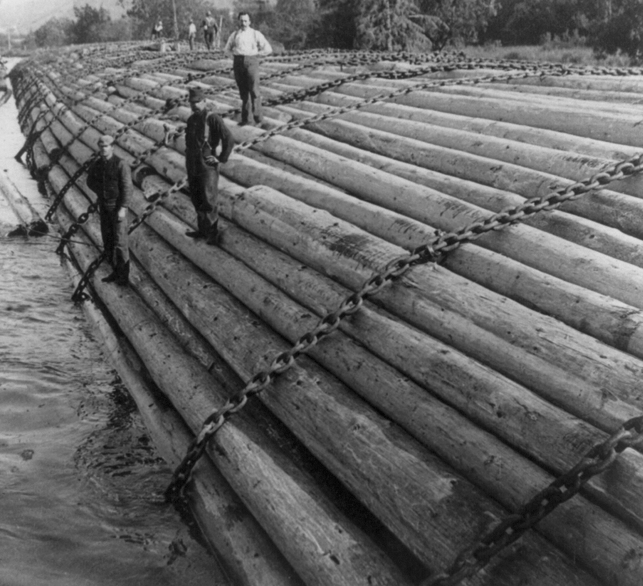 Stupendous Log-Raft, containing millions of feet - a camp's year's work, profit $20,000 - Columbia River, Oregon